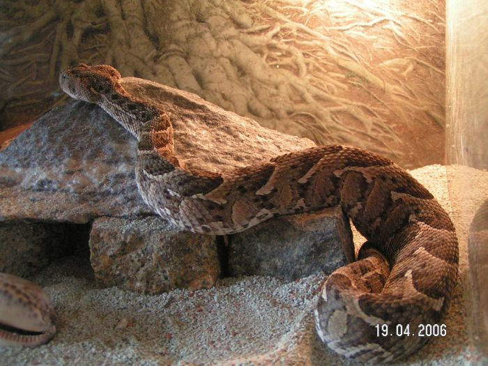 Bitis arietans